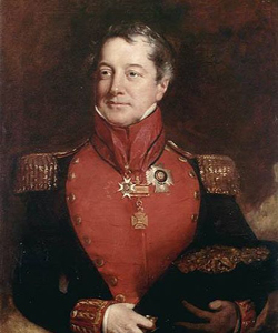 This image of Matthew Whitworth-Aylmer is a two-dimensional work of art whose author died more than 100 years ago, it is in the public domain.